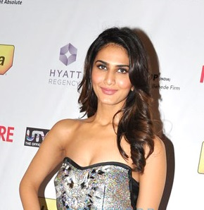 Vaani Kapoor at 59th Idea Filmfare Awards 2013 Pre-Awards party